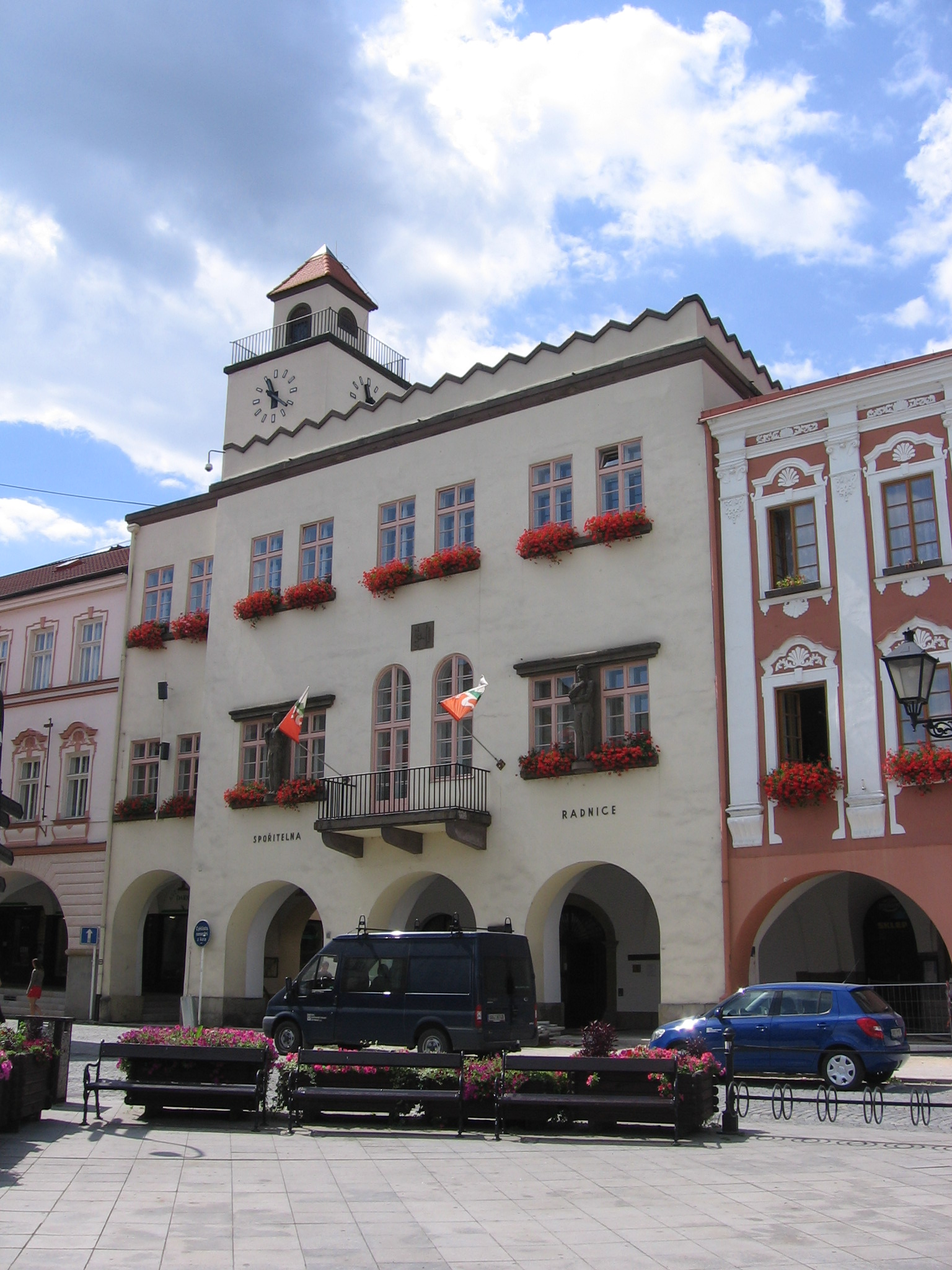 Townhall in Nový Jičín, Czech Republic